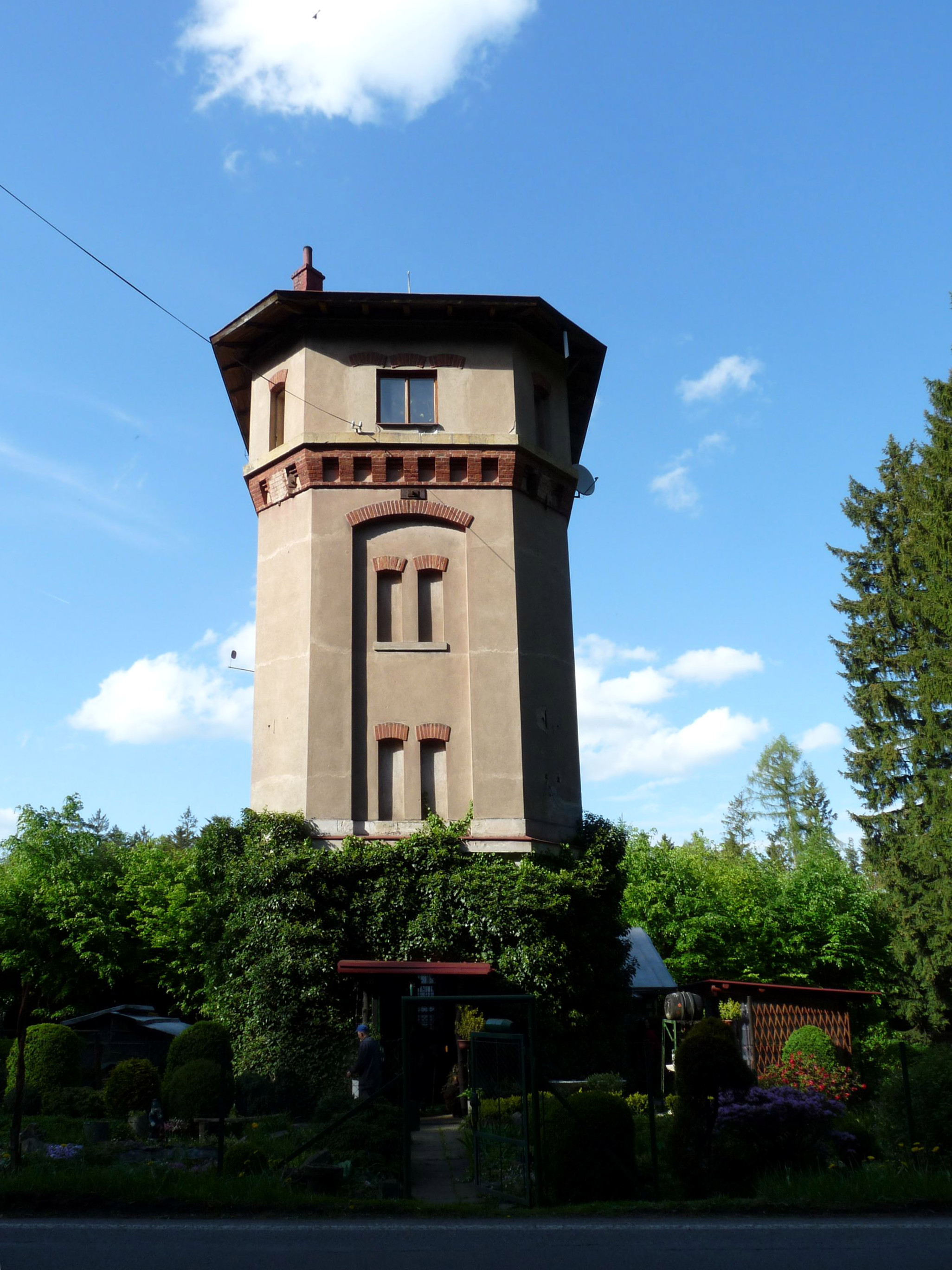 Water tower near the village of Bílek, Havlíčkův Brod District, Vysočina Region, Czech Republic.